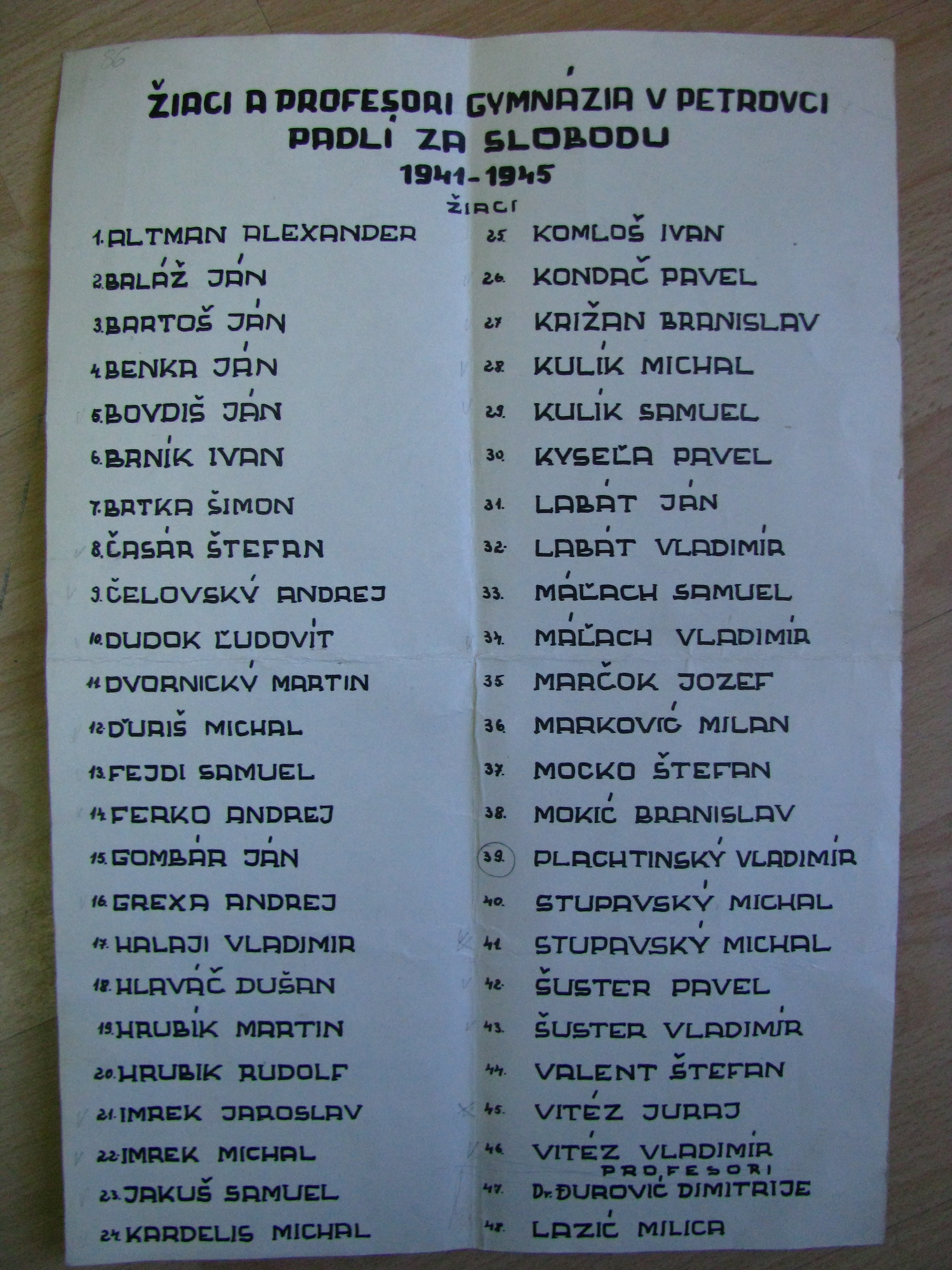 A list of professors and students of the "Jan Kolar" Gymnasium in Bački Petrovac who were killed in World War II. Srpski (latinica): Spisak profesora i učenika Gimnazije "Jan Kolar" u Bačkom Petrovcu koji su stradali u Drugom svetskom ratu.